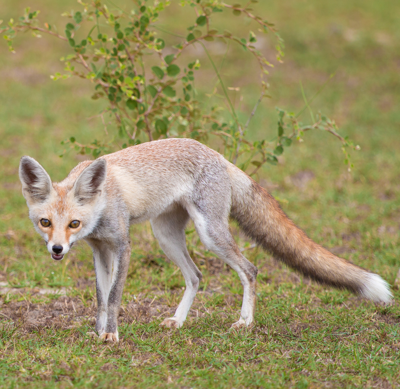 Individual at Tal Chappar